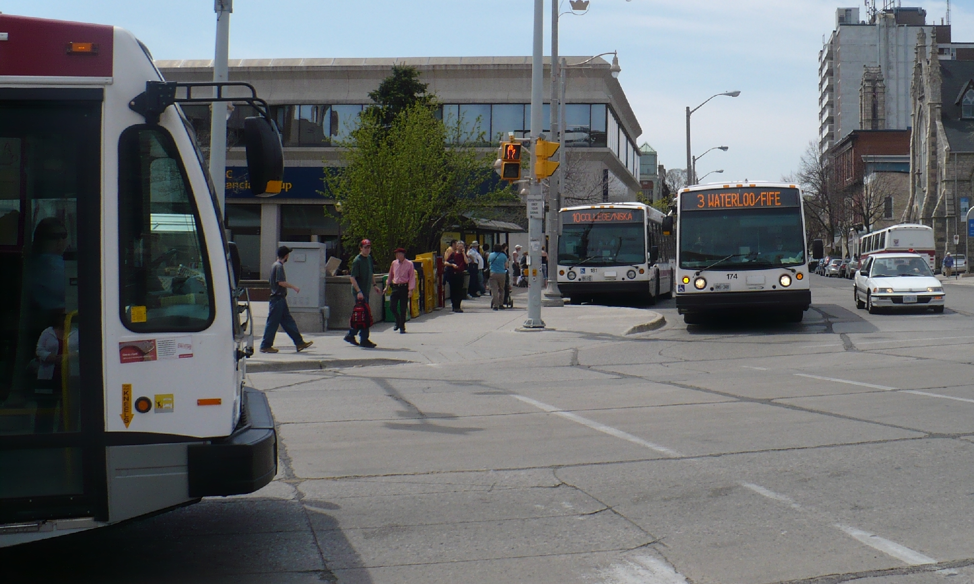 Bus routes connect at St. George's Square.